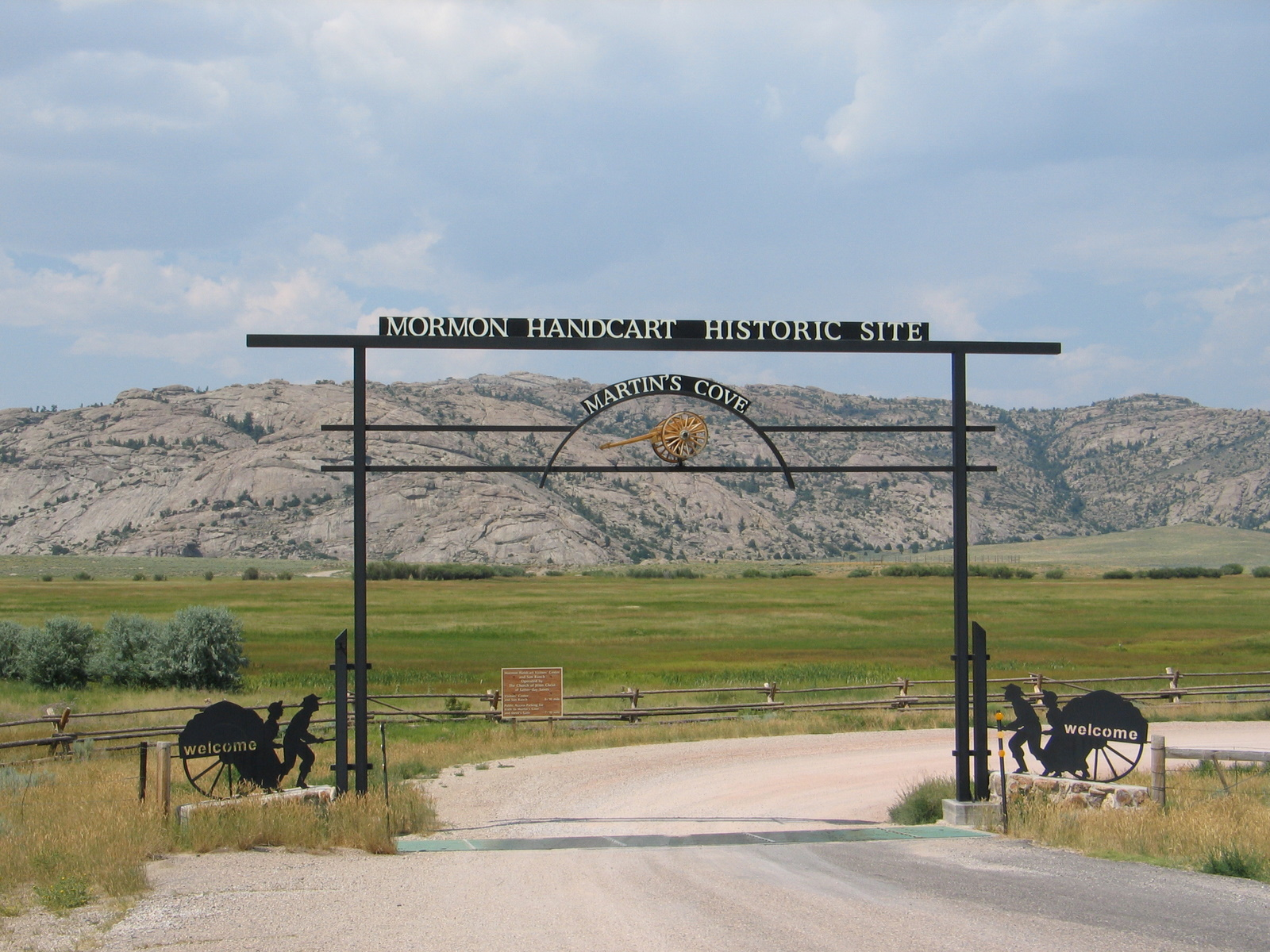 The entrance gate of the Martin's Cove Mormon Handcart Historical Center near Devil's Gate (Wyoming), owned by The Church of Jesus Christ of Latter-day Saints.